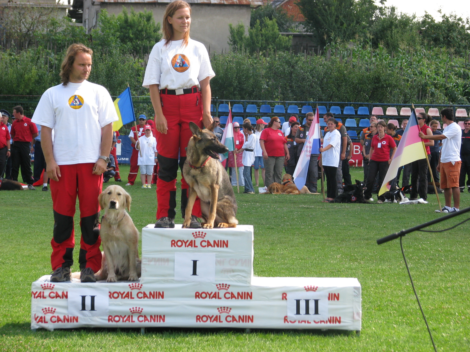 Winners at Water test WCH of Rescue Dogs Romania 2009